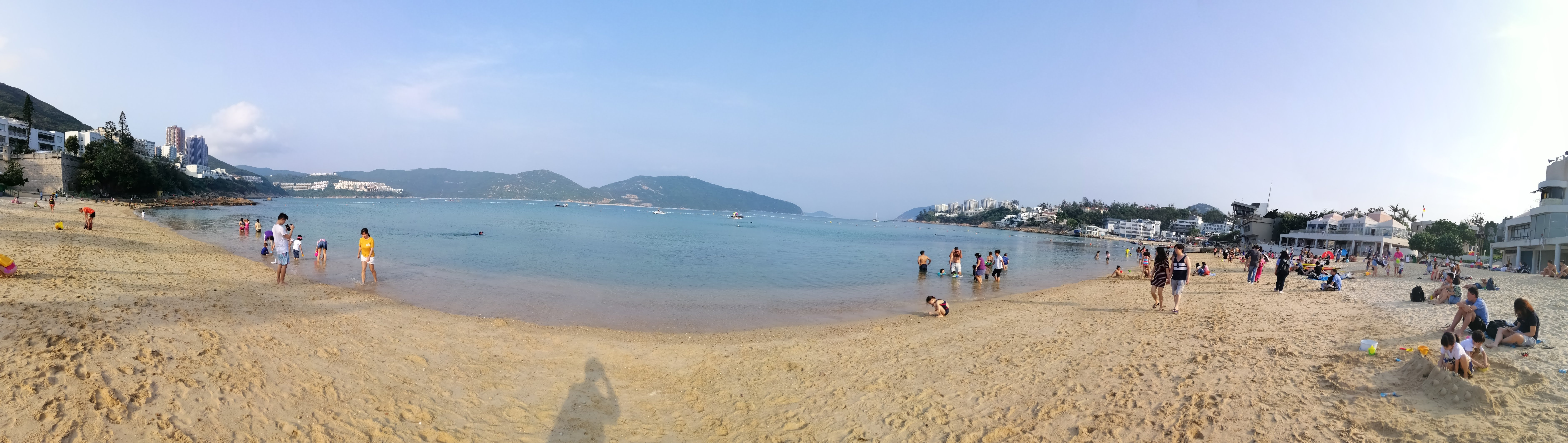 stanley view 7